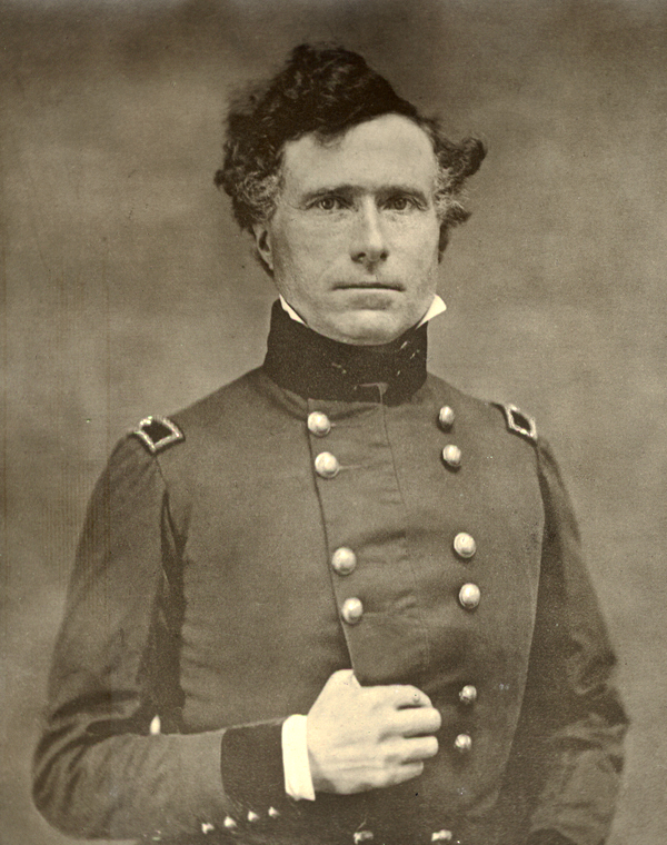 Half plate daguerreotype of Franklin Pierce in uniform, 1852.